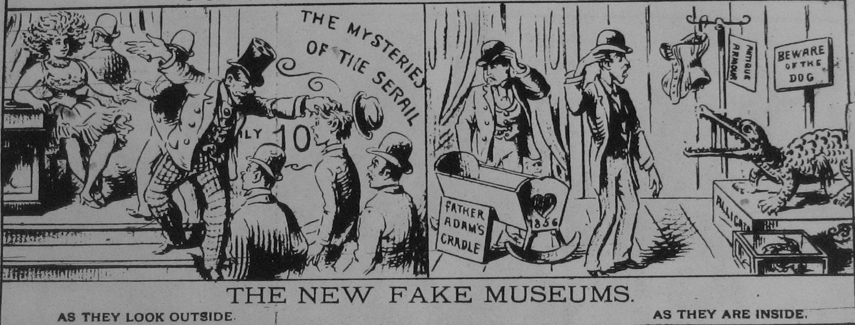 Illustration in "The Mascot" newspaper, New Orleans, 1889. "The New Fake Museums". First panel of cartoon "As They Look Outside" shows barker and scantily clad woman lureing in customers. The barker is shown actually grabbing a young man by the hair to pull him in. Sign says "The Mysteries of the Serail" ("Serail" then being a synonym for "Harem"). The second panel "As They Are Inside" shows puzzled patrons in a room displaying cheap taxidermy and common items labeled with highly dubious claims.